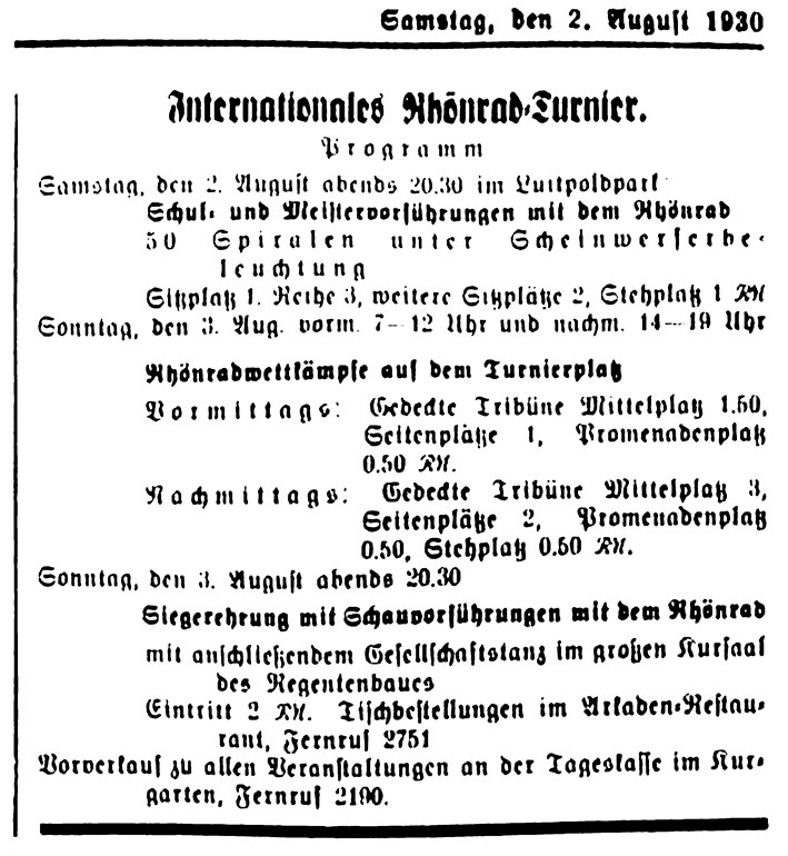 scan of the program of the Rhönrad tournament at the Saale Zeitung (newspaper) on 02/08/1930